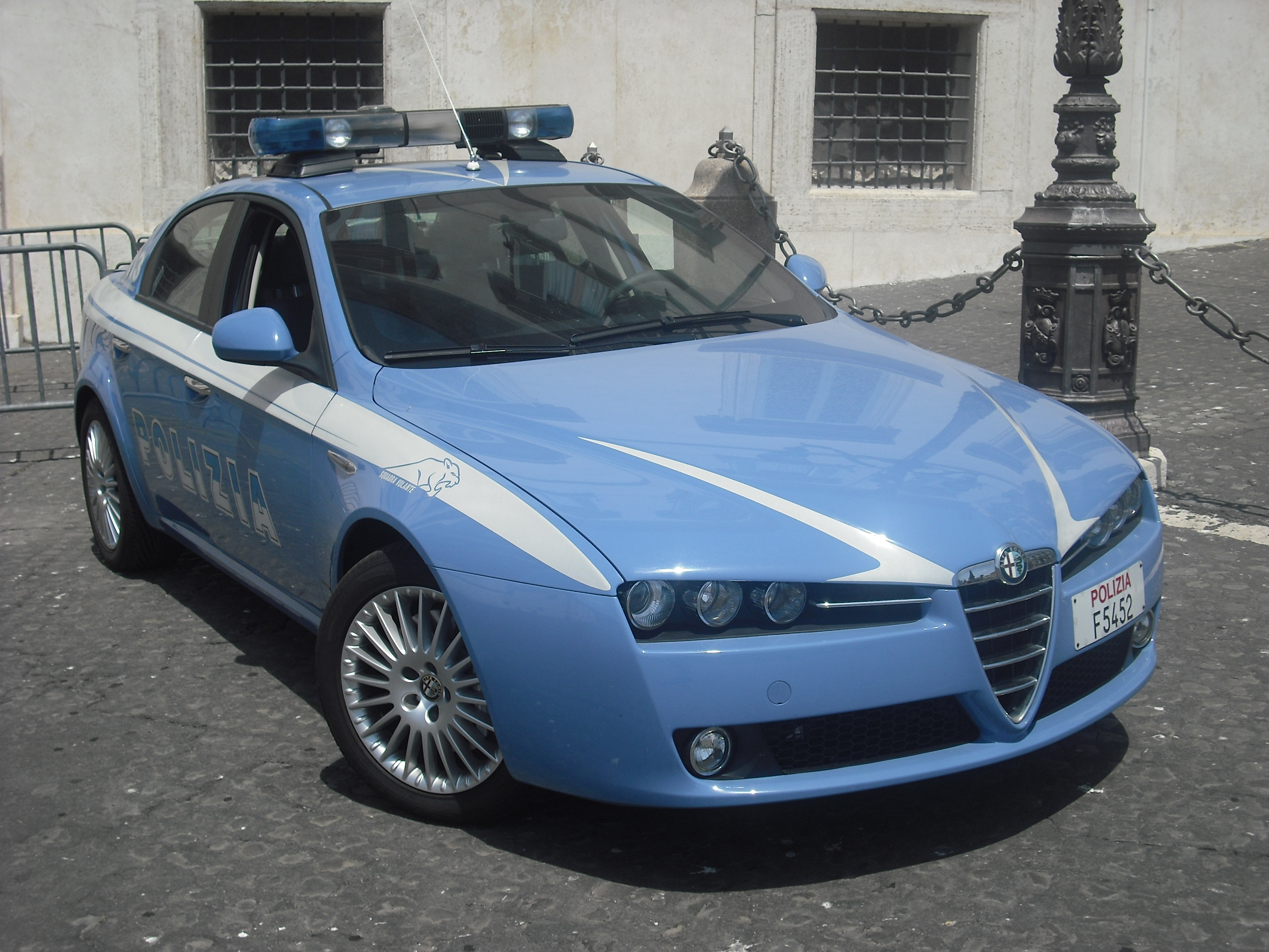 Only in Italy do the cops drive alfa romeos!